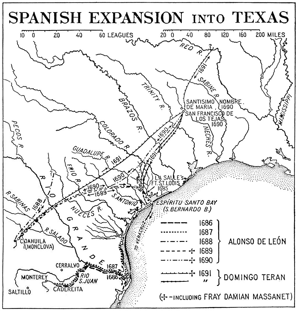 This shows the paths taken by explorers from Spain into Texas.